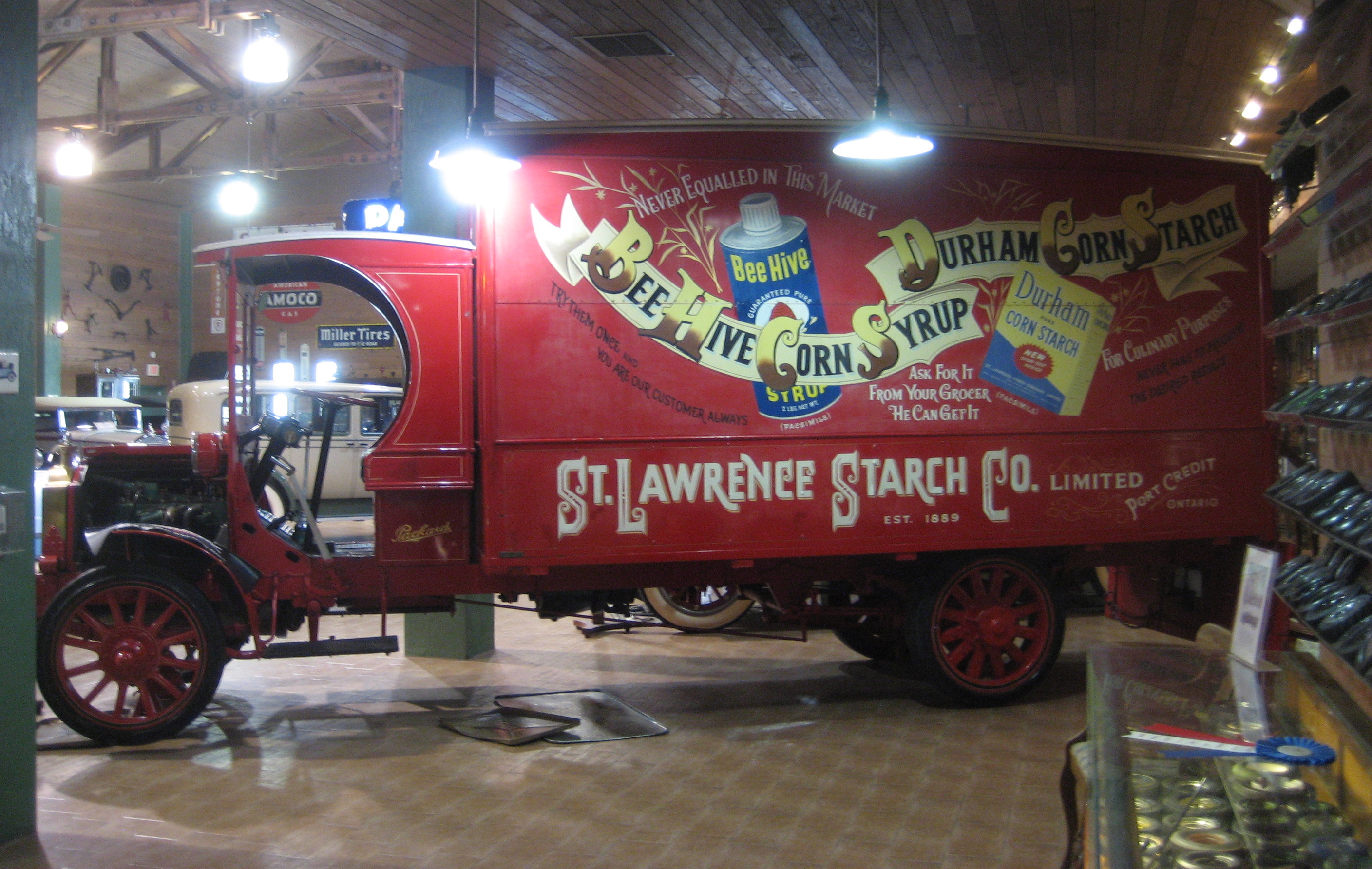 1915 Packard Model E 2 & 1/2 ton C-Cab truck on display at the Fort Lauderdale Antique Car Museum.